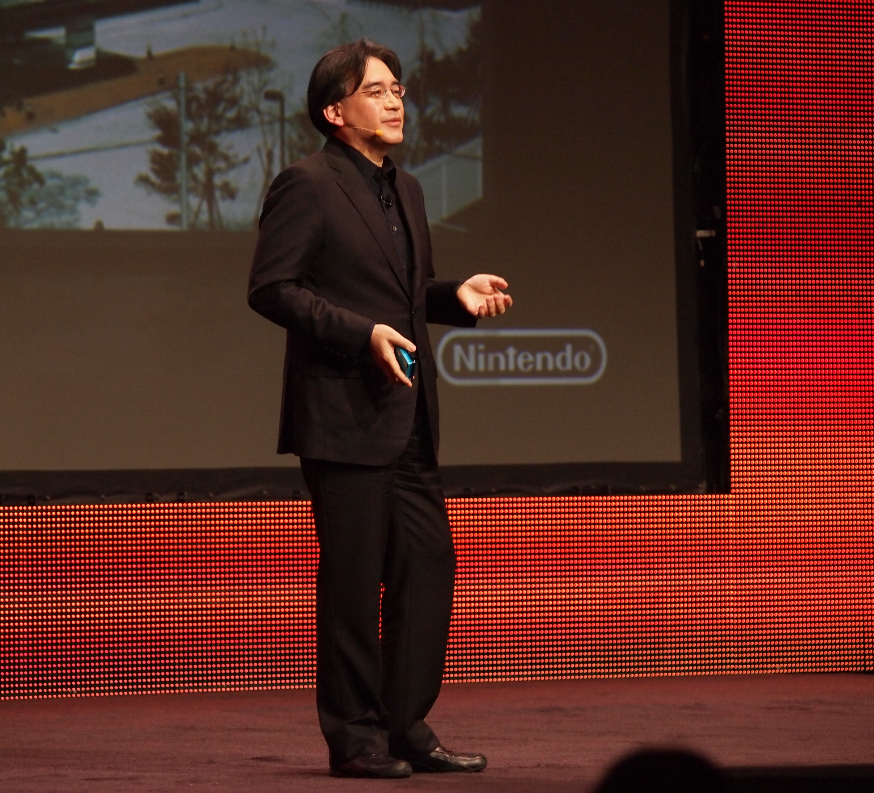 Satoru Iwata at the Game Developers Conference in 2011 (third day), speaking at session "Video Games Turn 25: A Historical Perspective and Vision for the Future".